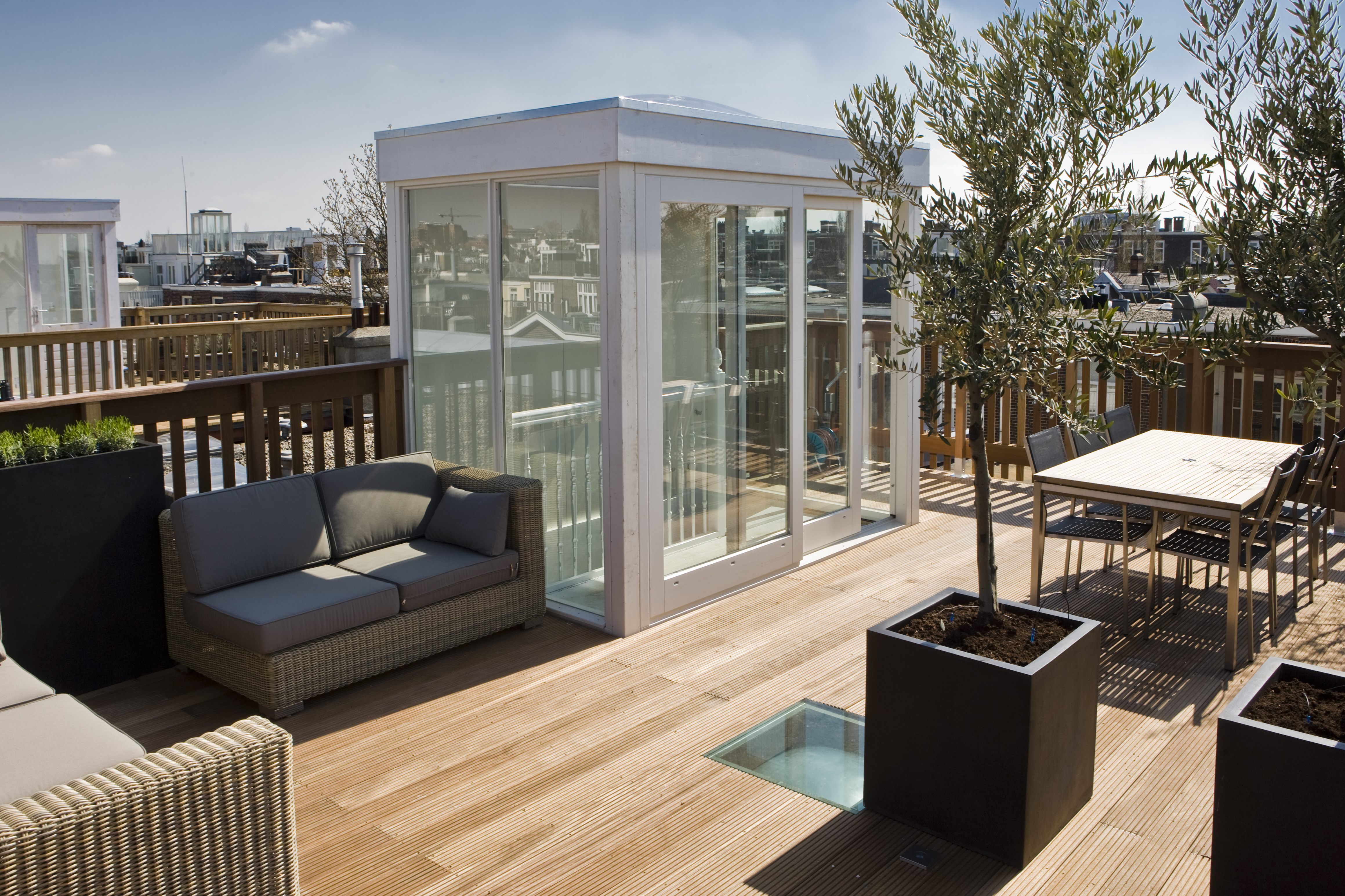 Dakterras op plat dak Amsterdam